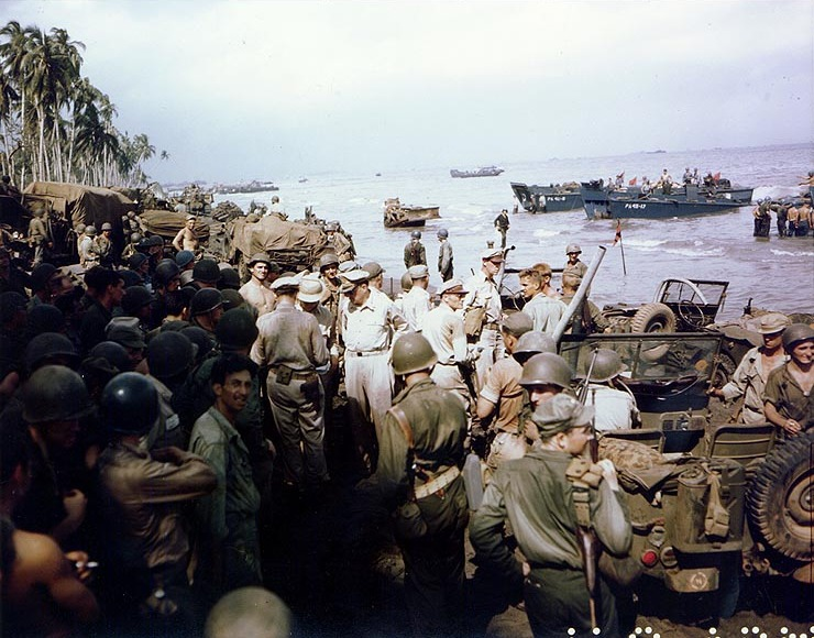 Invasion of Leyte, October 1944 General Douglas MacArthur (center), accompanied by Lieutenant Generals George C. Kenney and Richard K. Sutherland and Major General Verne D. Mudge (Commanding General, First Cavalry Division), inspecting the beachhead on Leyte Island, 20 October 1944. Note the crowd of onlookers. The swamped LCVP in the right background is from USS Ormsby (APA-49).